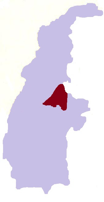 Banmauk Township roughly highlighted in Sagaing Region, Burma